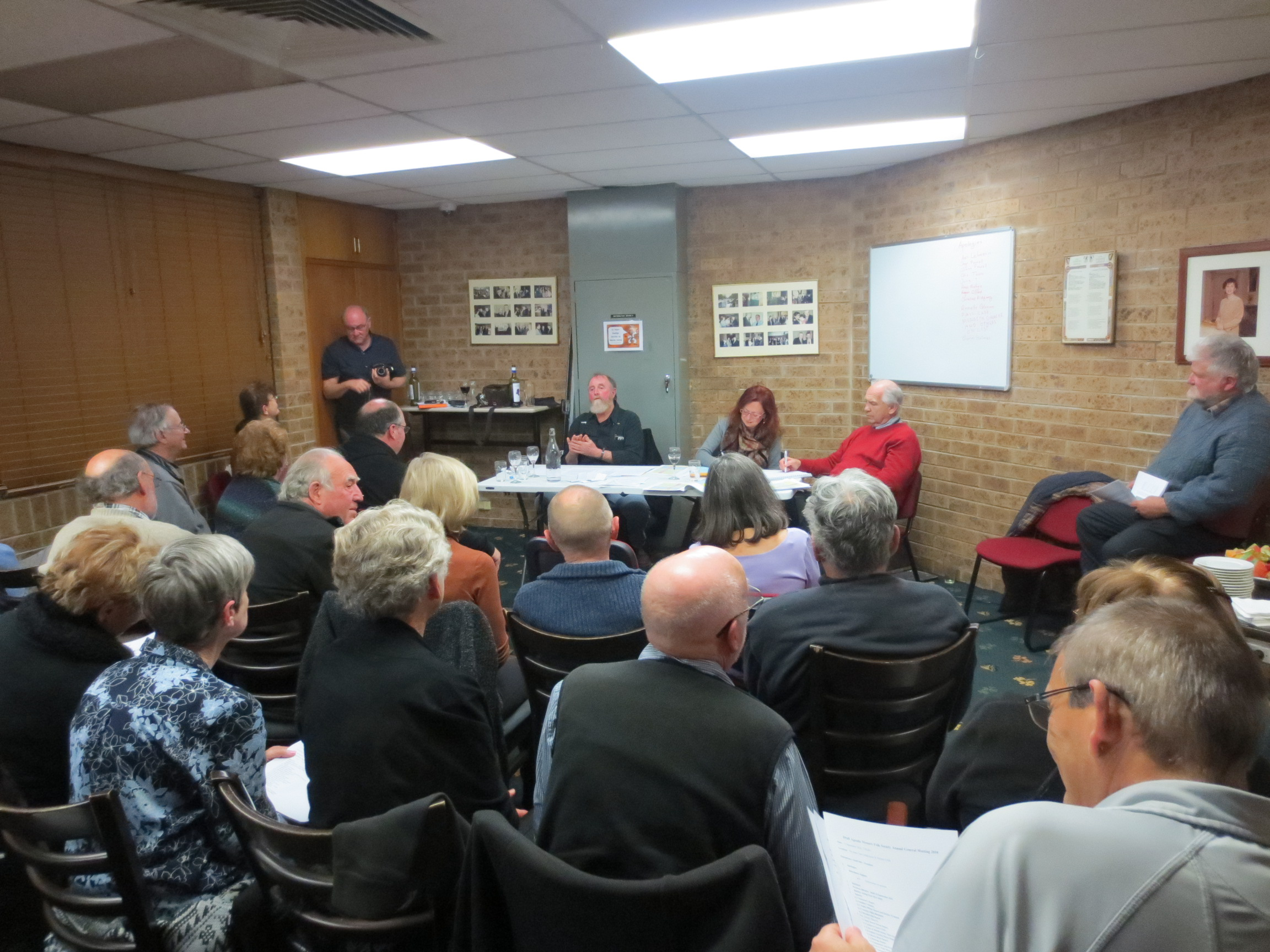 AGM of a typical very small volunteer non-profit organisation the Monaro Folk Society showing officer holders sitting at table in background president secretary and public officer. Members are sitting facing away from the camera in the foreground (2016). Hled at the Irish Club in Canberra, Australia